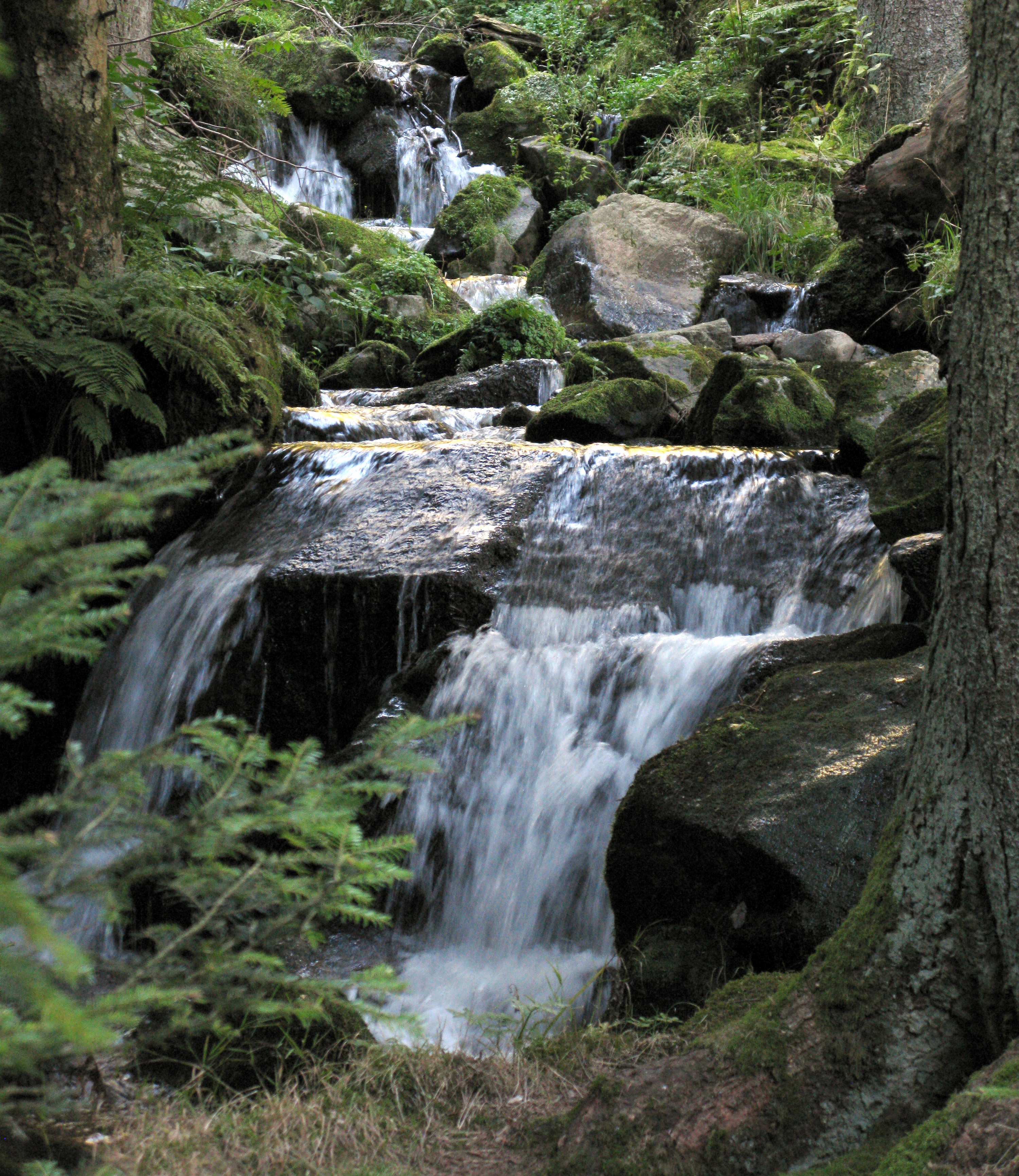 River Neumagen in the valley Stohren